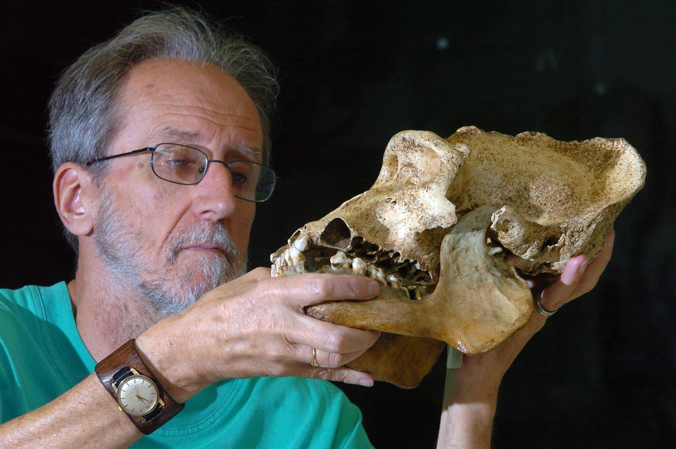 Professor of Biological Anthropology, Colin Groves in his lab, with a deformed skull of a male mountain gorilla found in Rwanda in 1971.